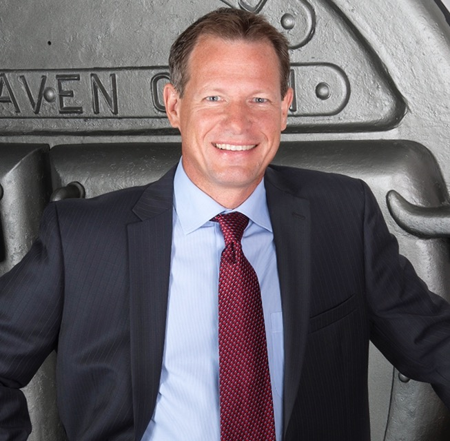 Larry Janesky